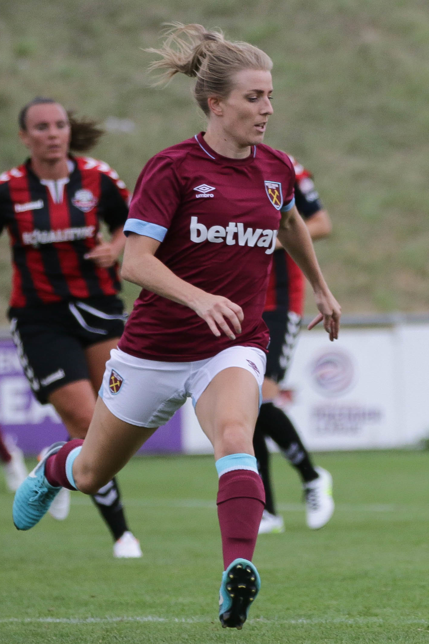 Lewes FC Women 0 West Ham Utd Women 5 pre season 12 08 2018-92.jpg